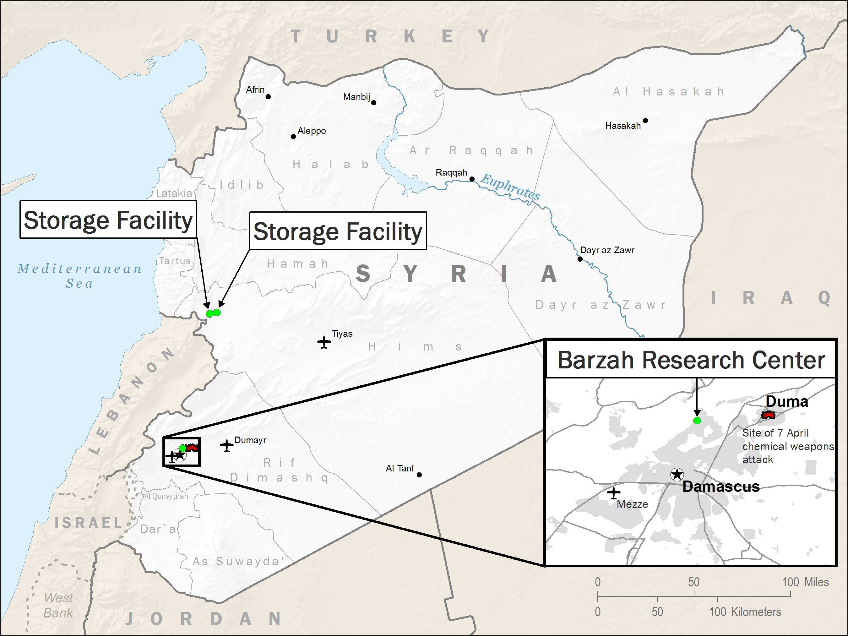 Map of 2018 bombing of Damascus and Homs released by the US Department of Defense